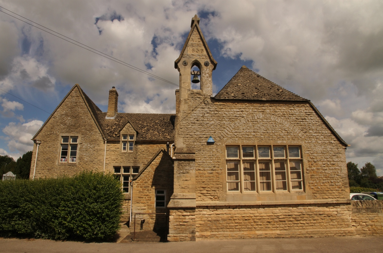 Aston and Cote Church of England Primary School, Aston, Oxfordshire, seen from the south